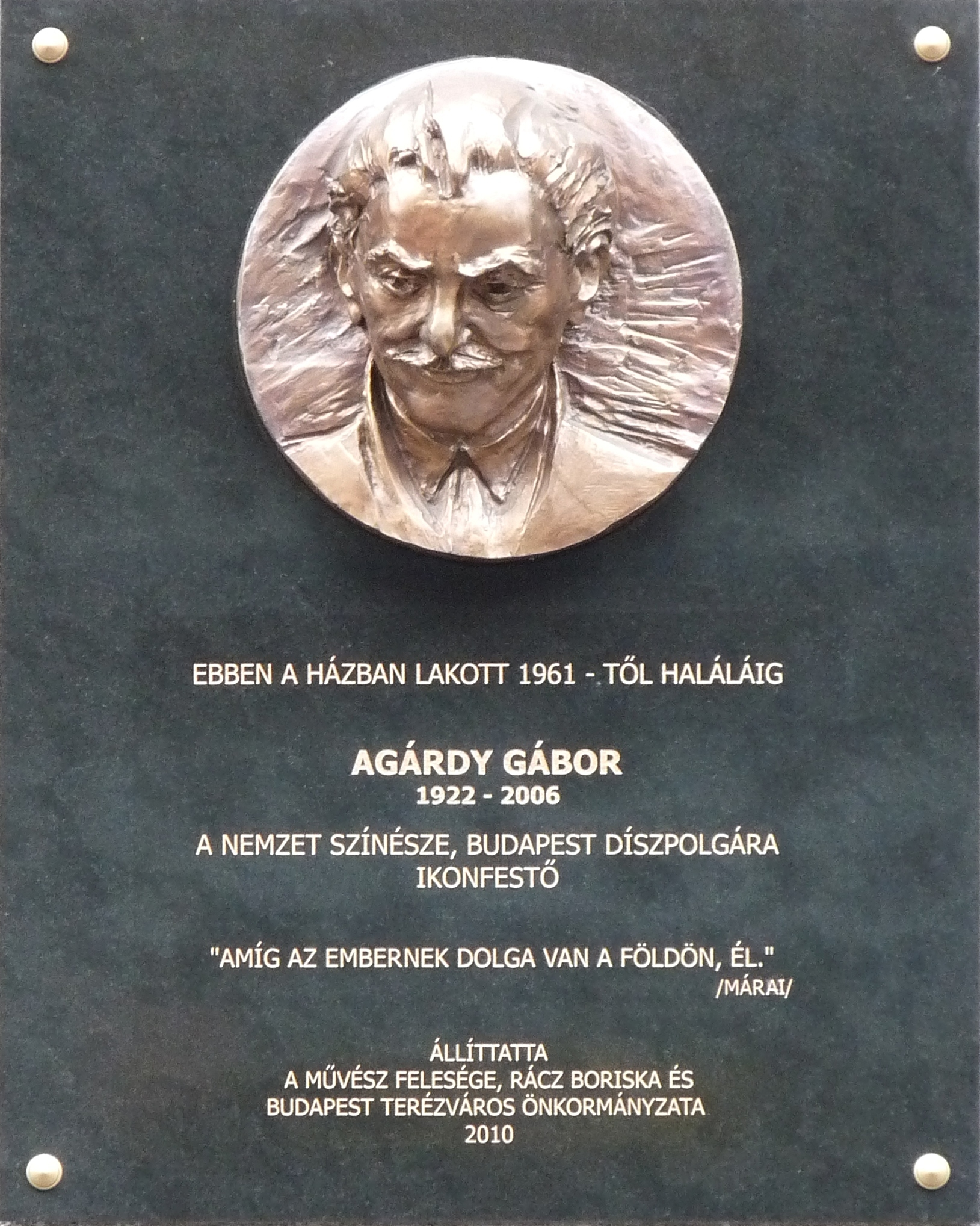 Commemorative plaque to Mr. Gábor Agárdy (originally: Gábor Arklián) (1922-2006), Hungarian actor (Actor of the Nation), icon peinter, placed on his former domicile in Budapest, September 16, 2009. Author of the bronz relief: Mária R. Törley. (Budapest, District VI, Király Street Nr 82).